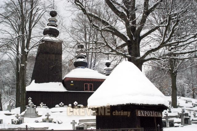 wooden church